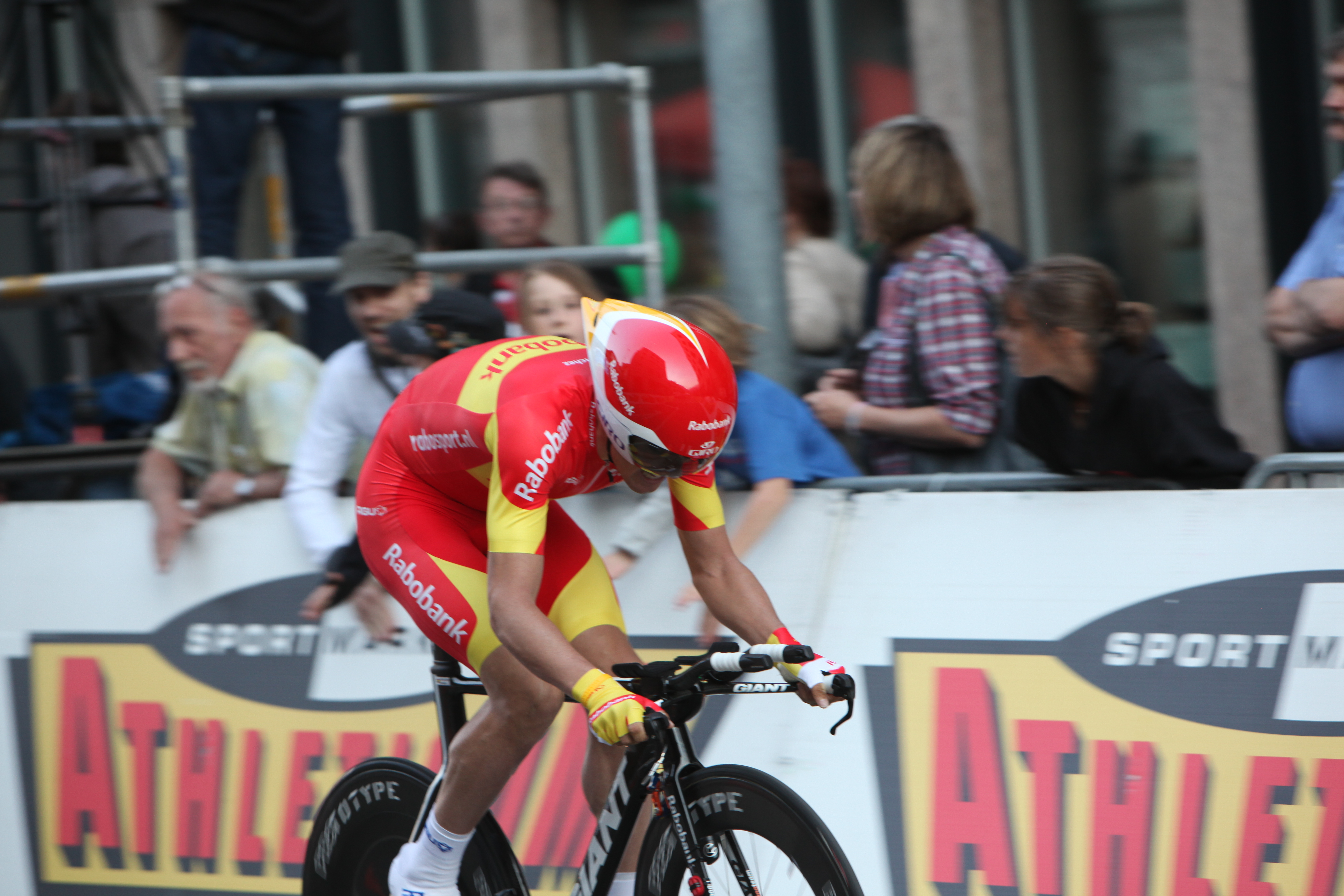 Luis Leon Sanchez at the prologue of the Tour de Romandie 2011